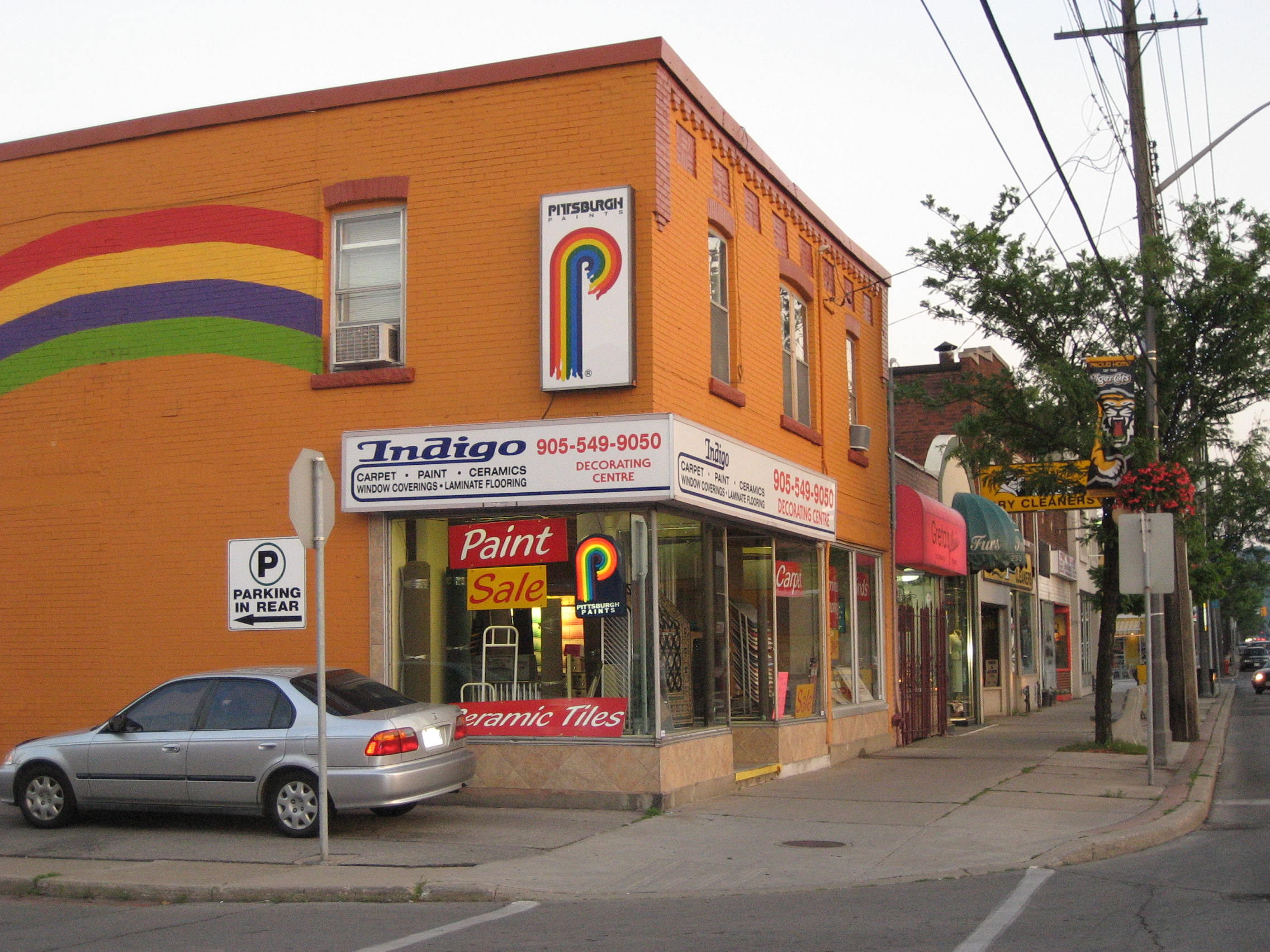 Ottawa Street North, Textile District, Hamilton, Ontario